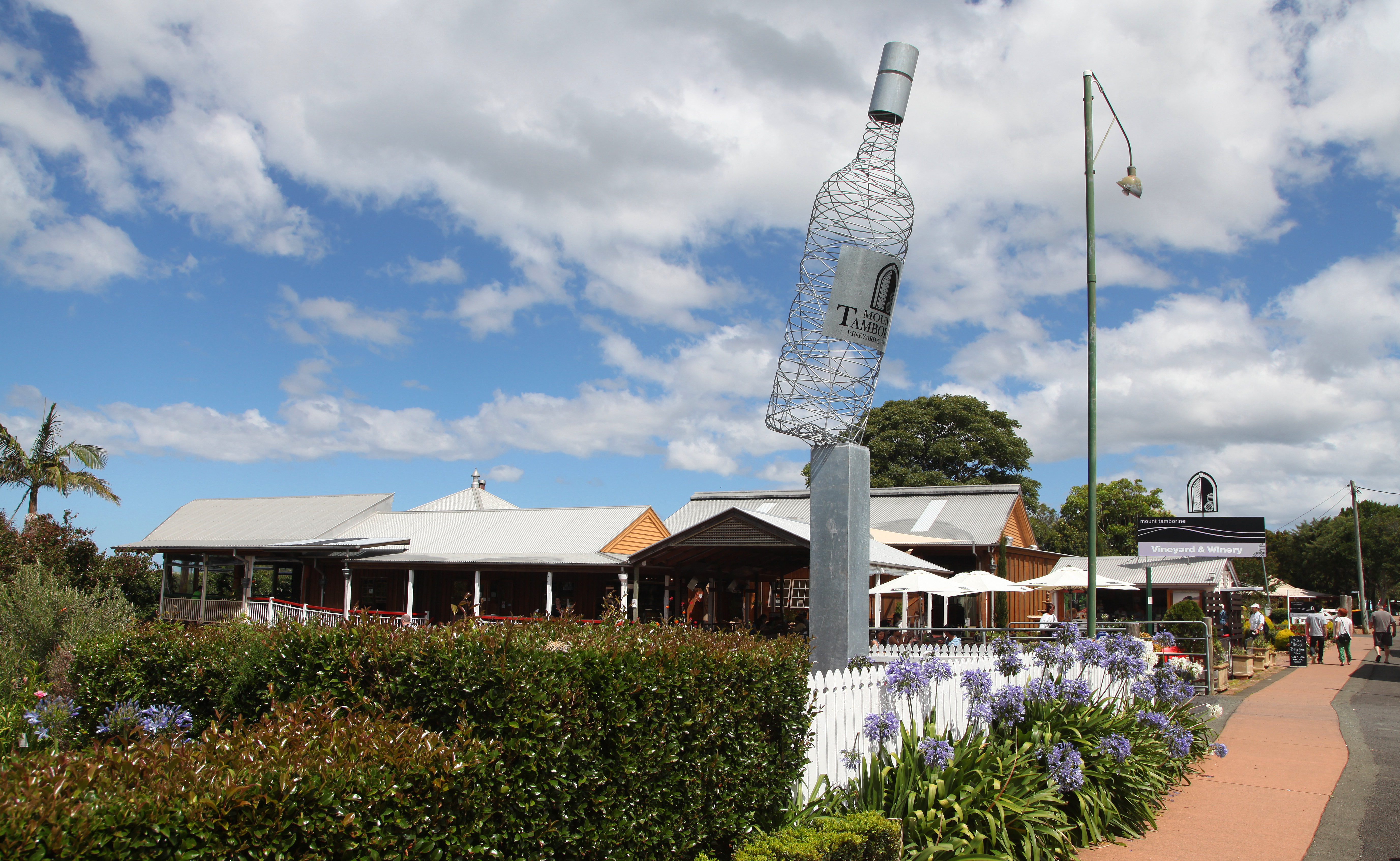 The Town of Eagle Heights, Tamborine Mountain, Queensland